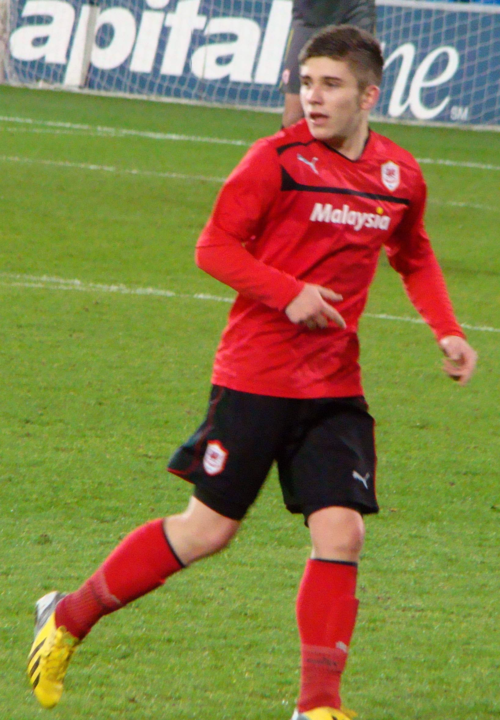 Declan John. Image cropped from original at flickr.